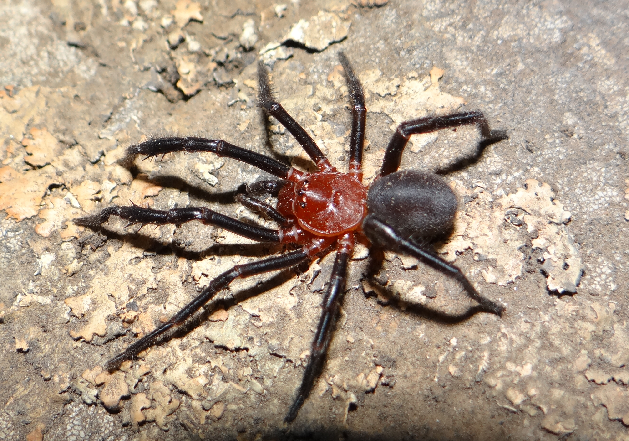 Adult male of Calathotarsus simoni